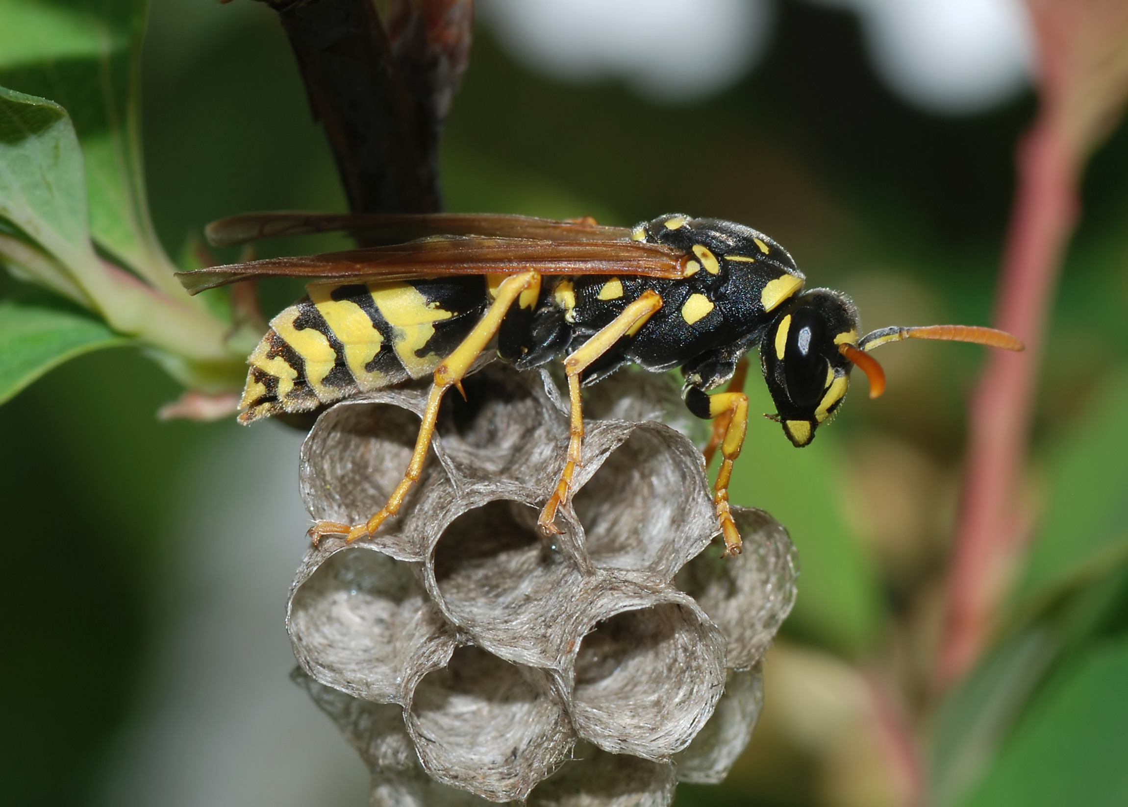 A paper wasp queen (Polistes gallicus) creating a new colony.